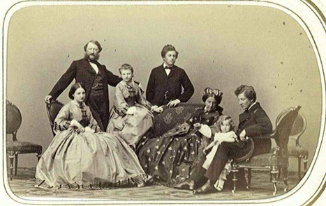 Family of August of Saxe-Coburg-Gotha. From left to right: Princess Marie Adelheid (Clotilde), Prince August, Princess Marie Luise (Amalie), Prince Philipp, Princess Clémentine of Orléans, Prince Ferdinand Maximilian (future Ferdinand I of Bulgaria) and Prince Ludwig August.